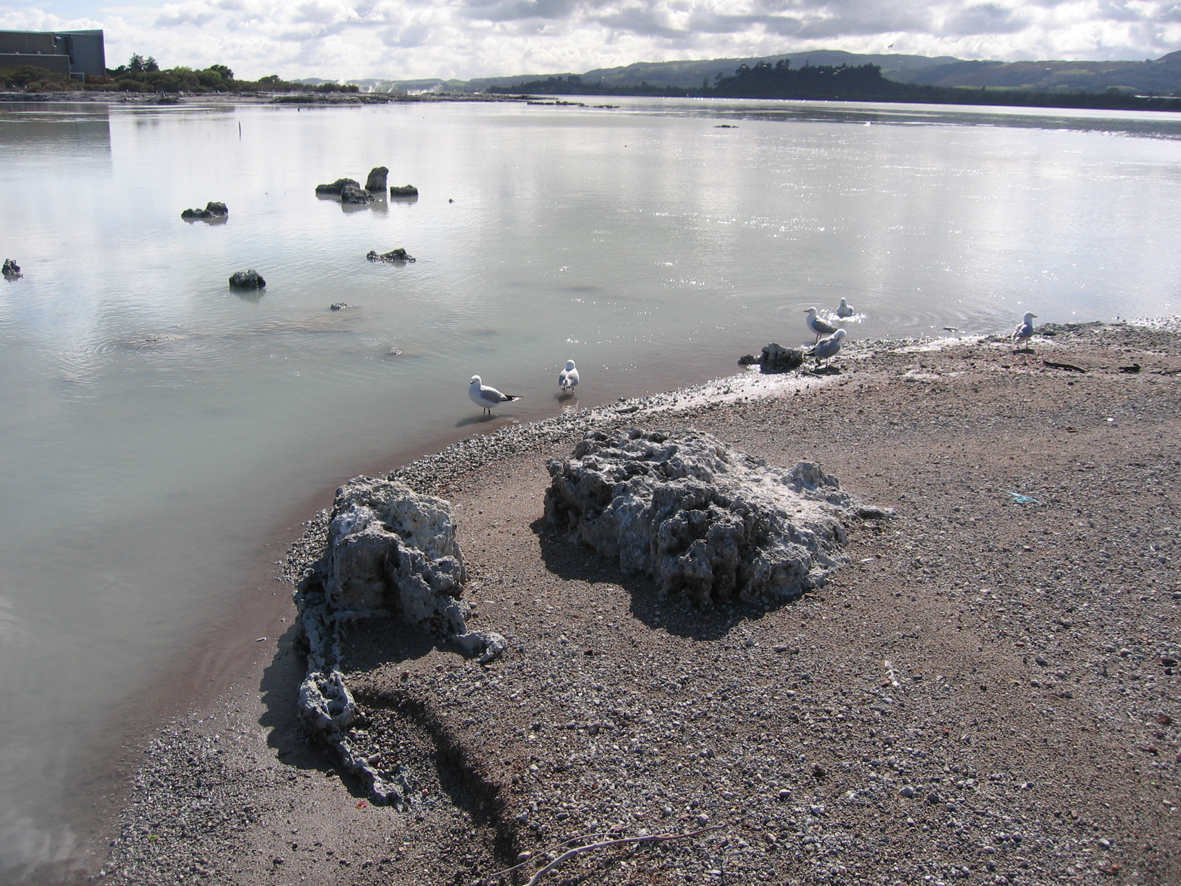 Lake Rotorua, NZ